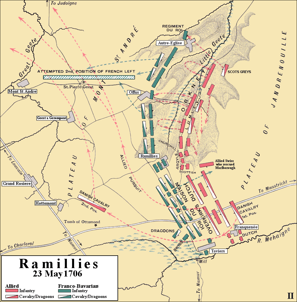 Battle of Ramillies, breakthrough. Based on map in G. M. Trevelyan's England under Queen Anne, vol. II